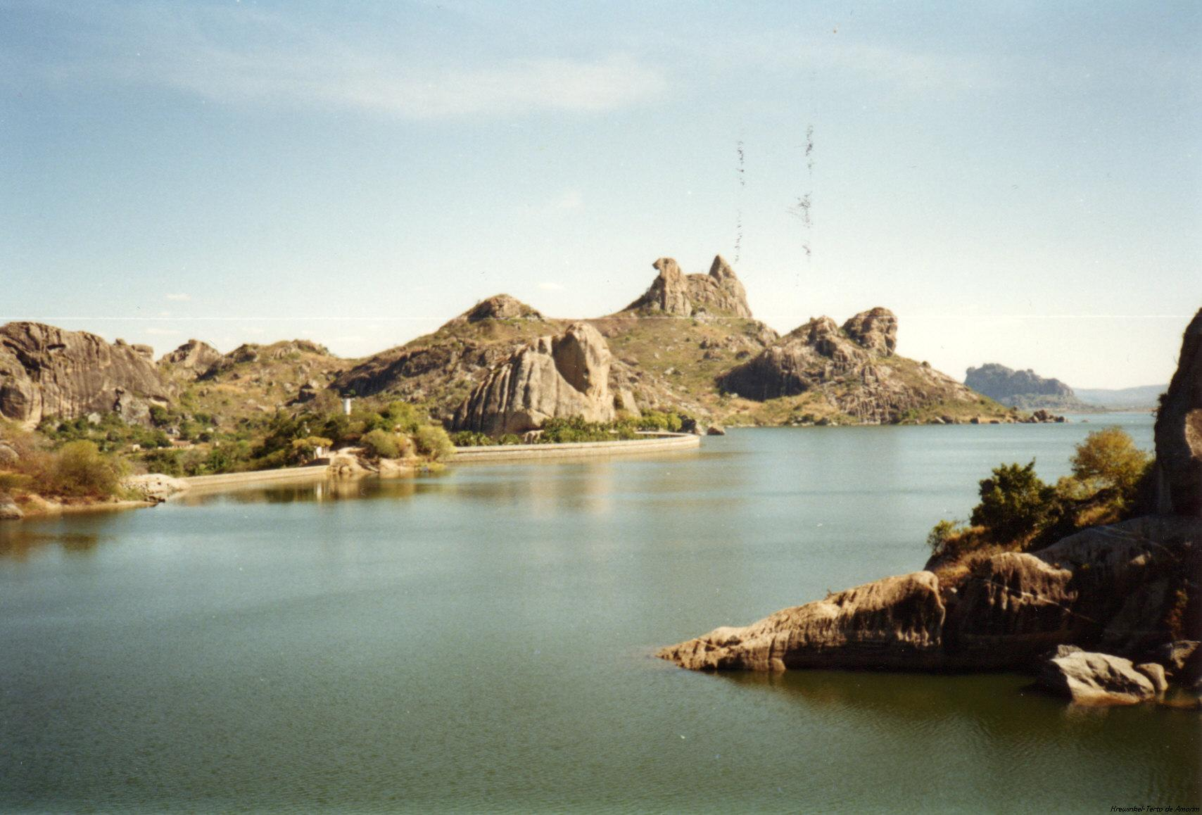 Açude do Cedro - reservoi's dam